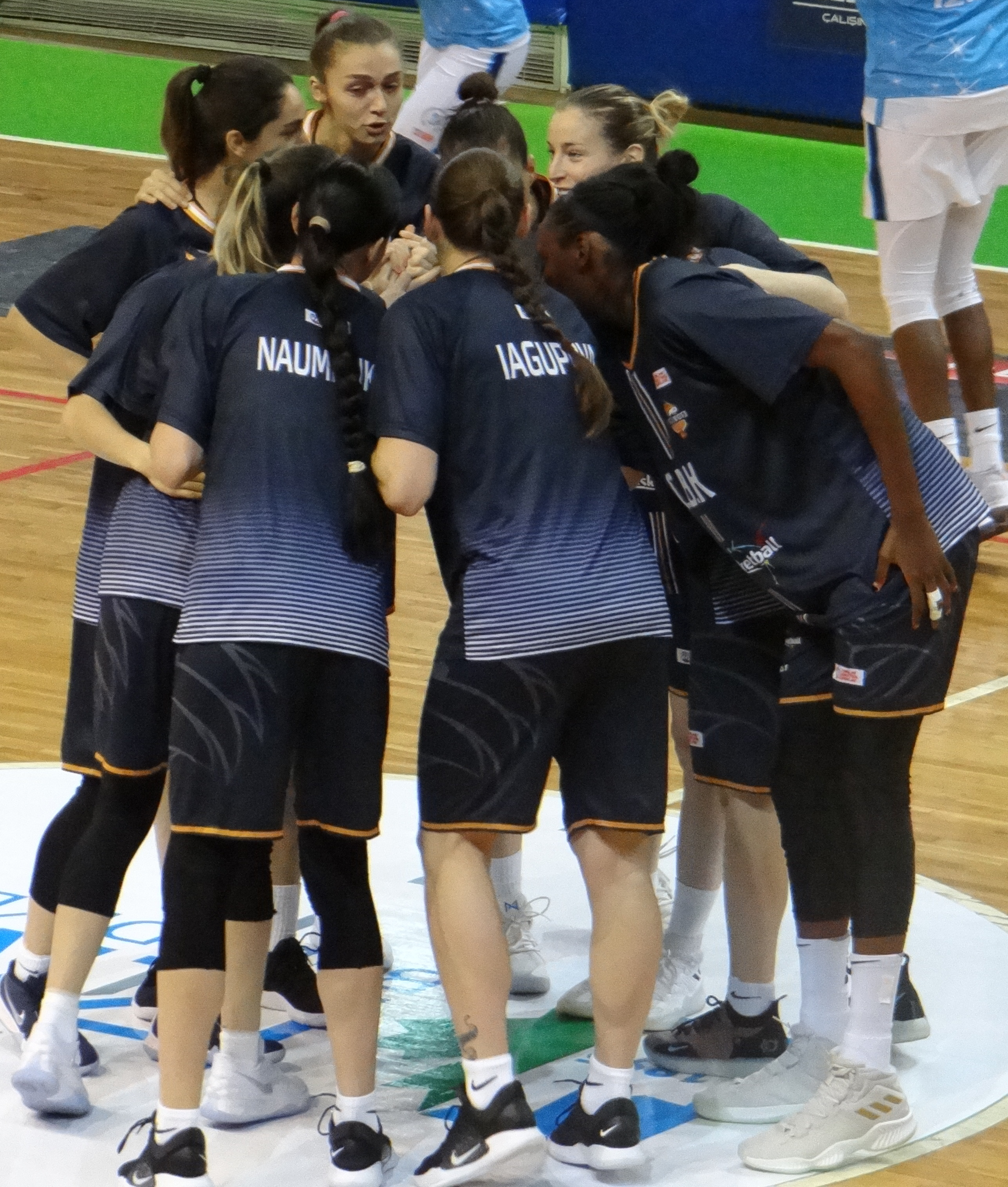 Izmit Belediyespor vs Çukurova BK TWBL 20181229